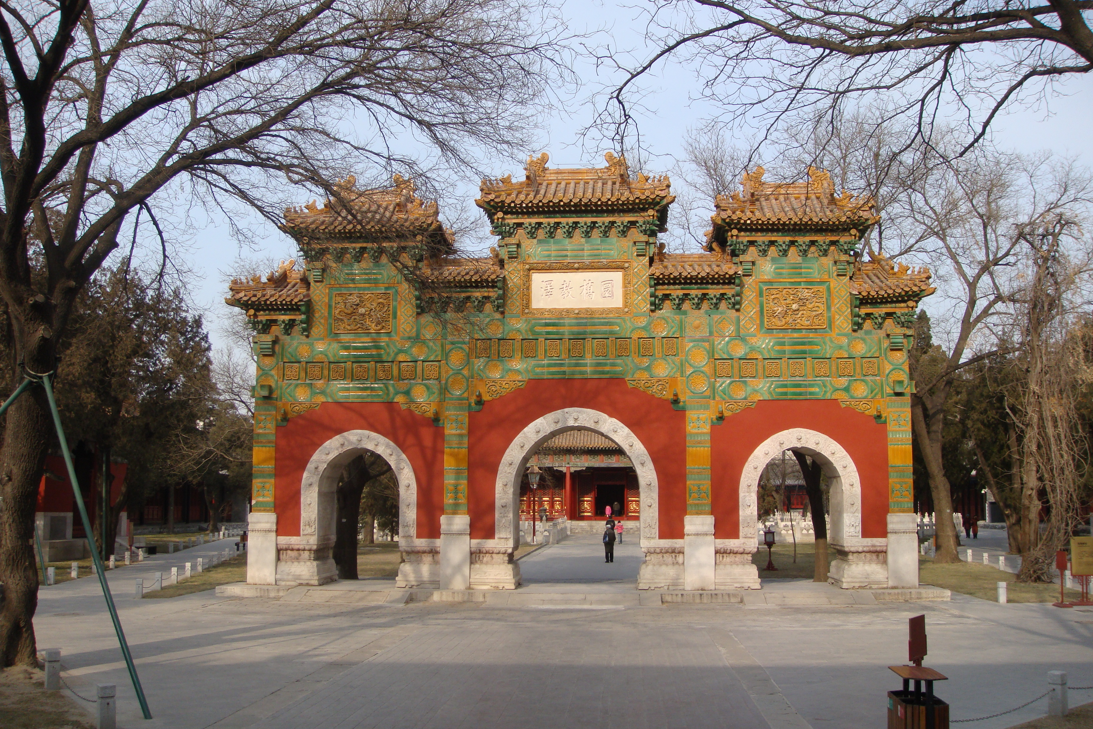 A gate into the Guozijian in Beijing, China.